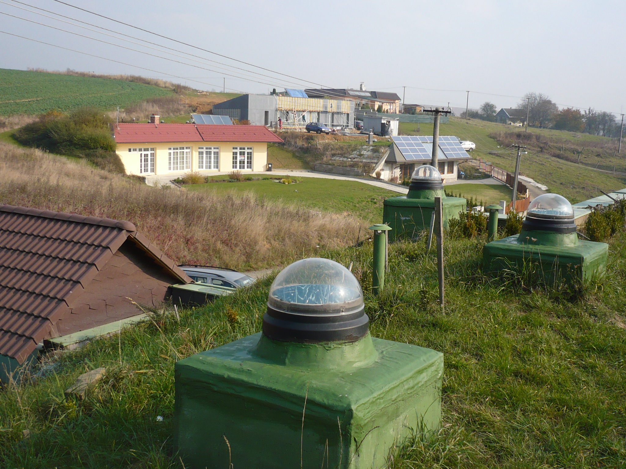 Lightwell of passive house, Jižní Chlum, Zlín.